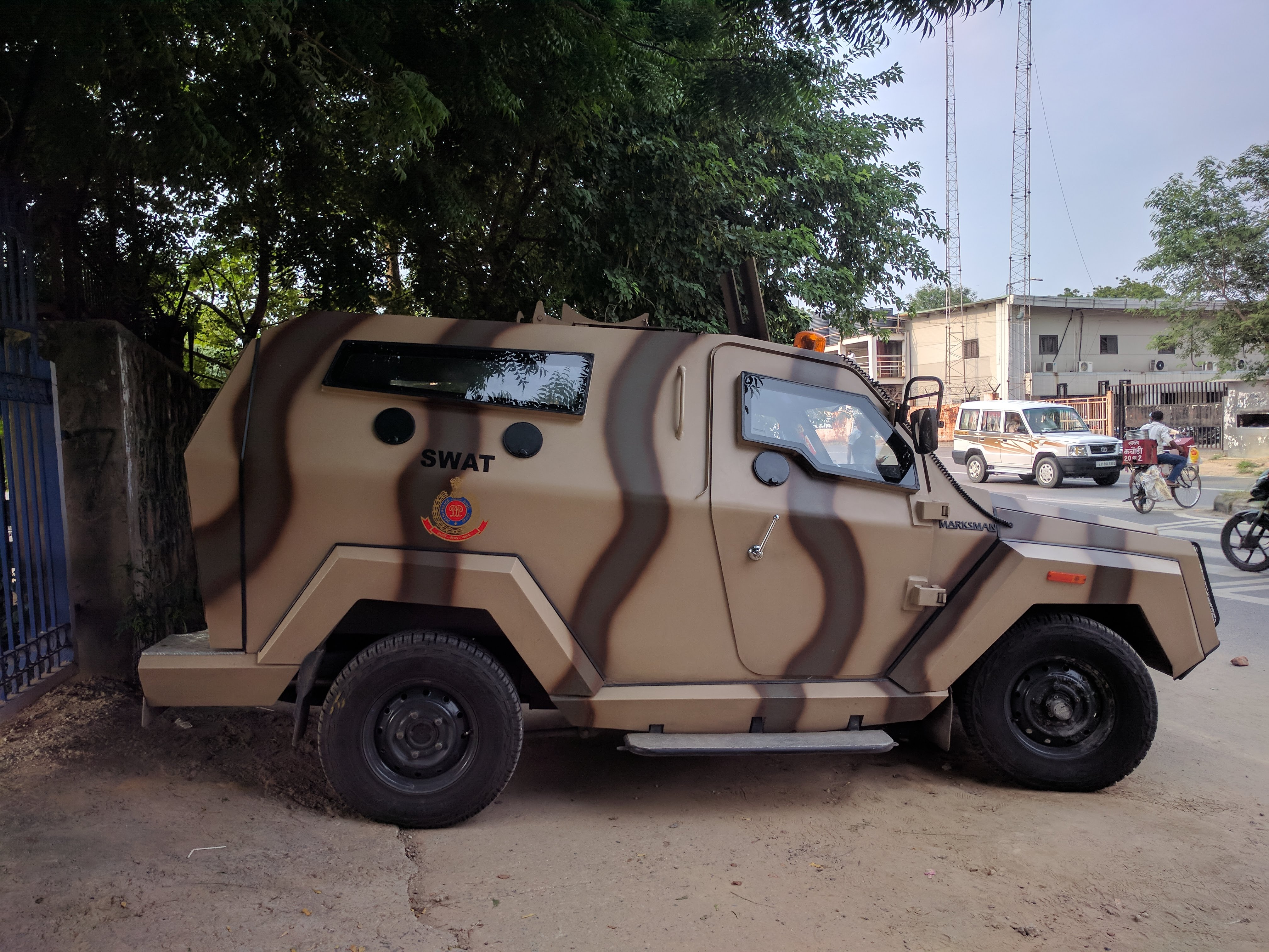 A Mahindra Marksman used by Delhi Police, New Delhi.